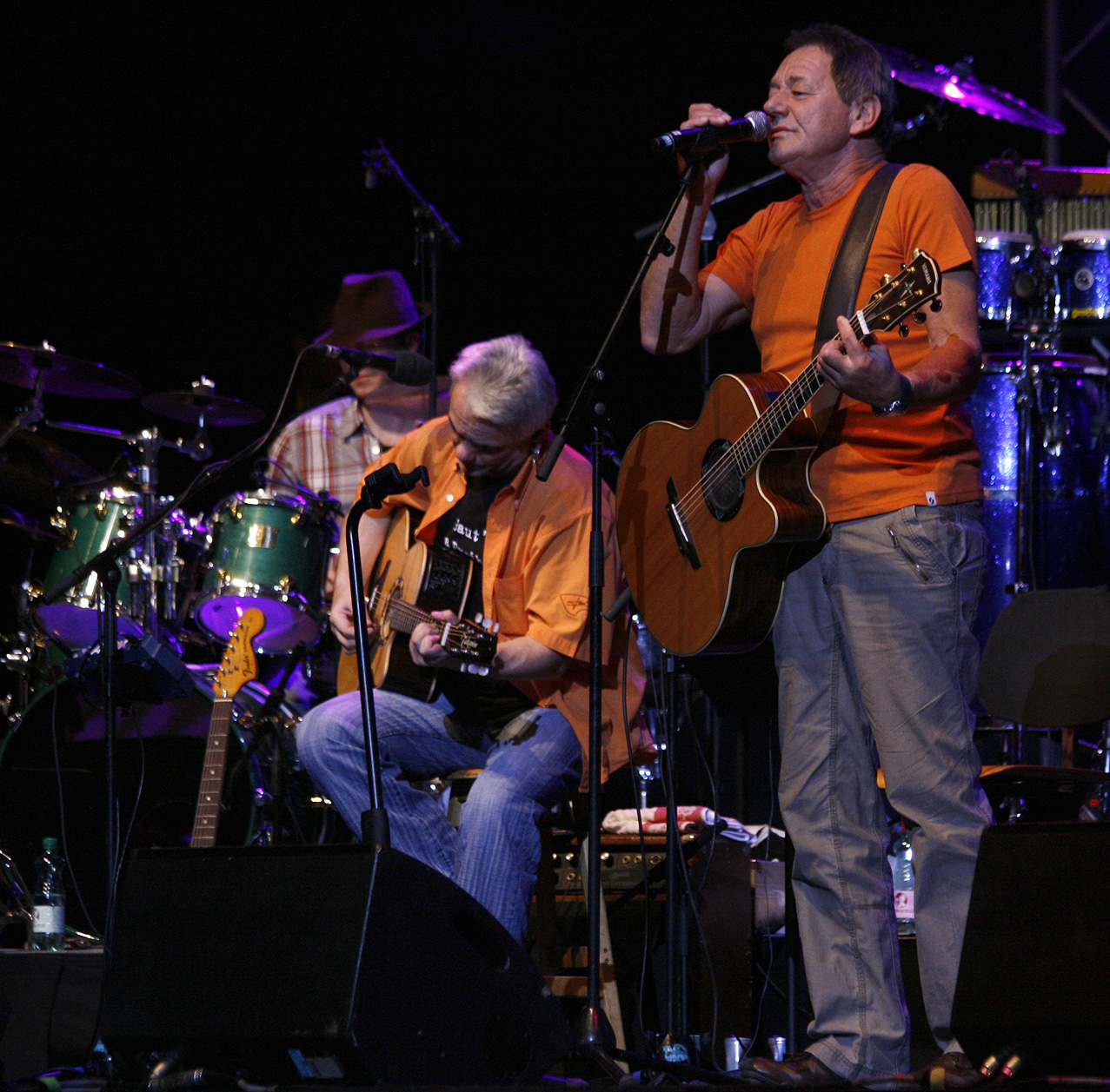 Wolfgang Ambros and Ulli Bäer; charity concert 'atemberaubend 08' in support of researching pulmonary hypertension (lungenhochdruck.at) at the Wiener Stadthalle.